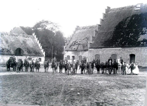 Snedinge in Slagelse Municipality, Denmark